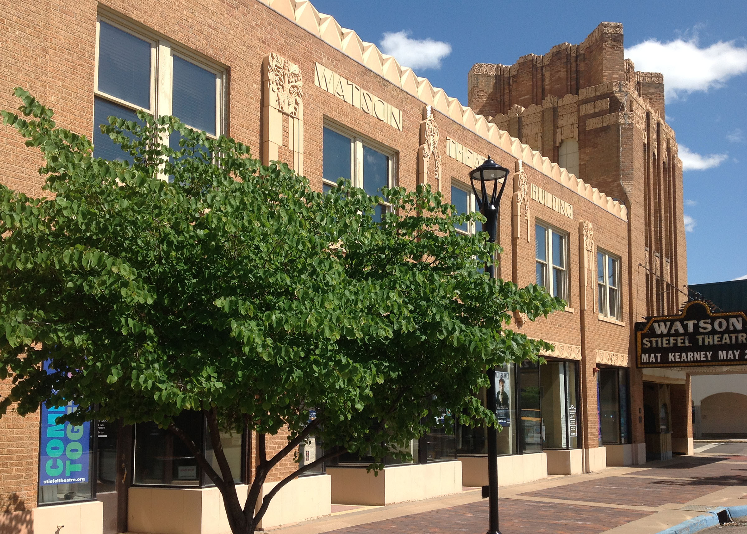 Watson Stiefel Theatre, in Salina, Kansas, formerly the Fox Watson Theatre